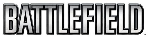 An edited version of the Title of Battlefield 2, to be used in the Battlefield page